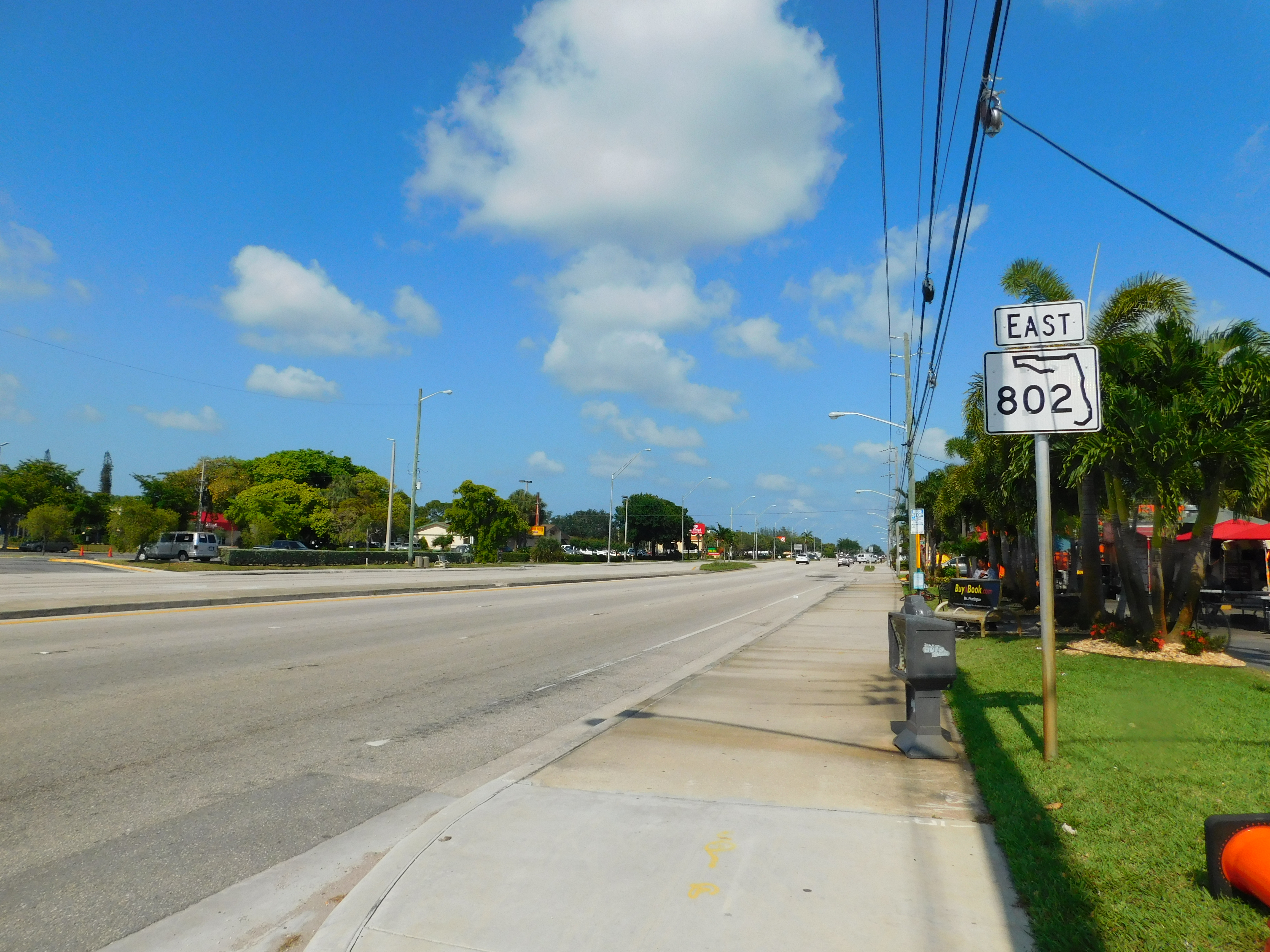 Florida State Road 802 eastbound in Lake Worth, Florida.